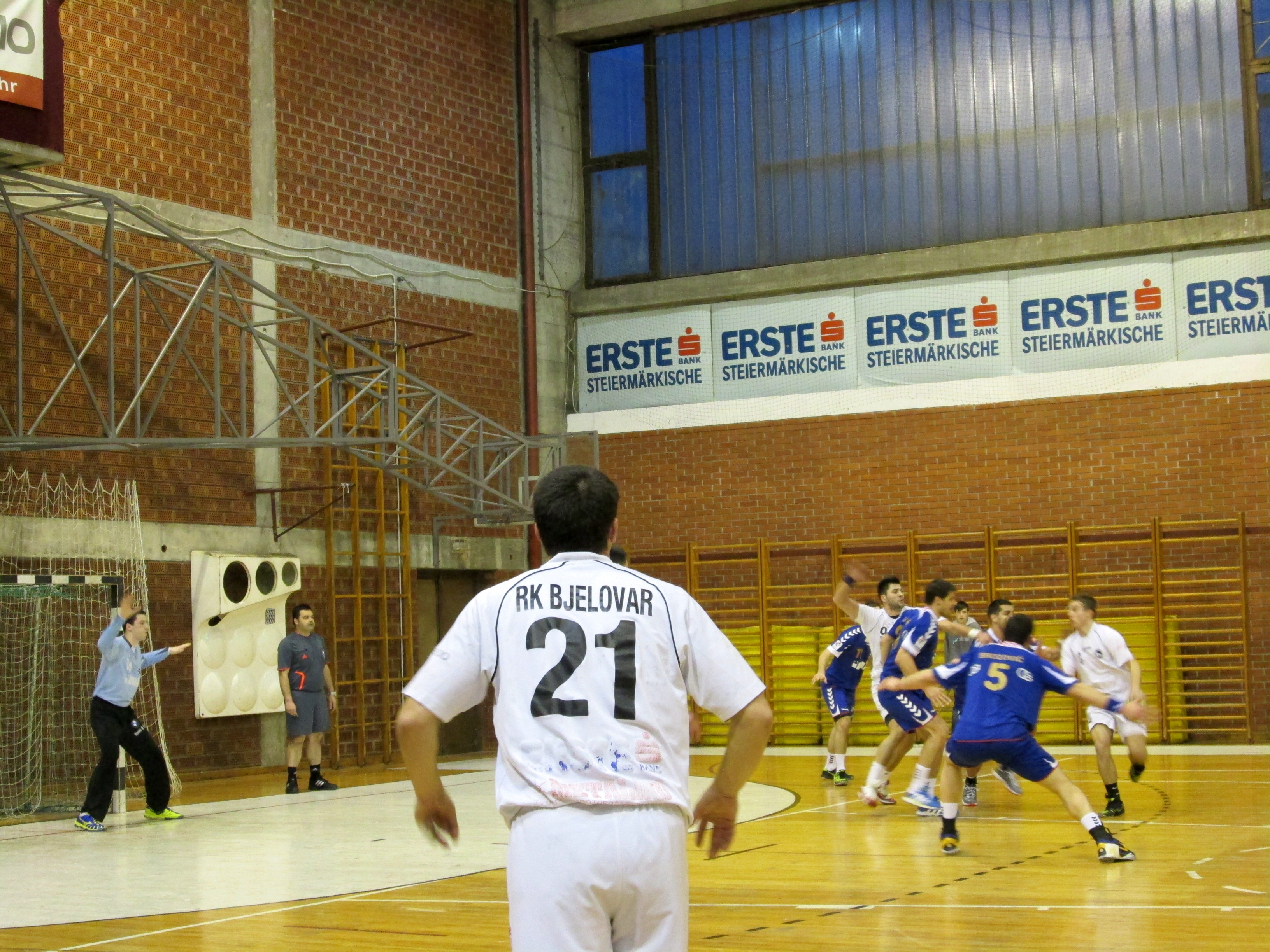 Handball game in Bjelovar, Croatia